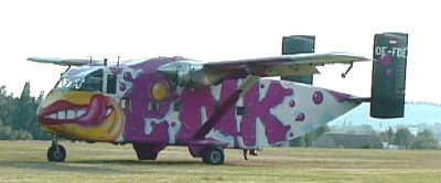 Short Skyvan Author: Andrea "Chronistin" Sturm. Foto taken in August 2001, Klatovy (Czech Republic) with Sony TCR-TRV900